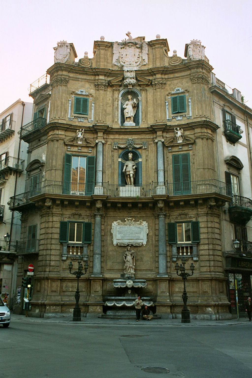 Quattro Canti, Palermo Baroque facade at the north-west corner